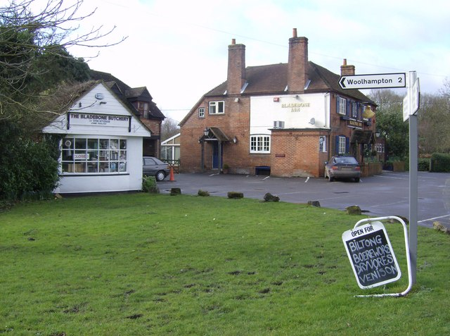 Provisions at Chapel Row The Bladebone Inn, a popular country pub, with meat provided by ... The Bladebone Butchery, South African meats a speciality by the looks of things.